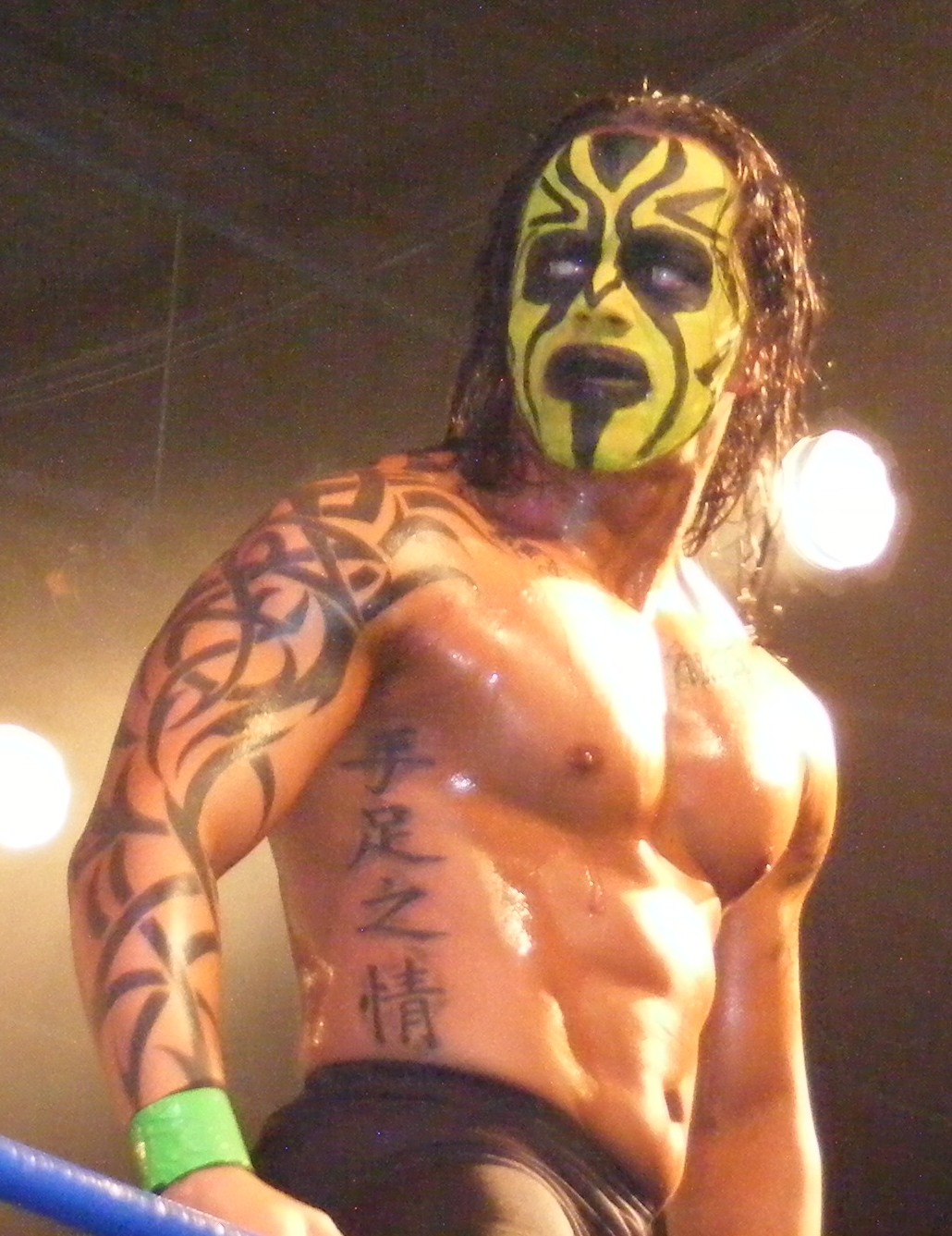 Professional wrestler Kodama at a Chikara event.